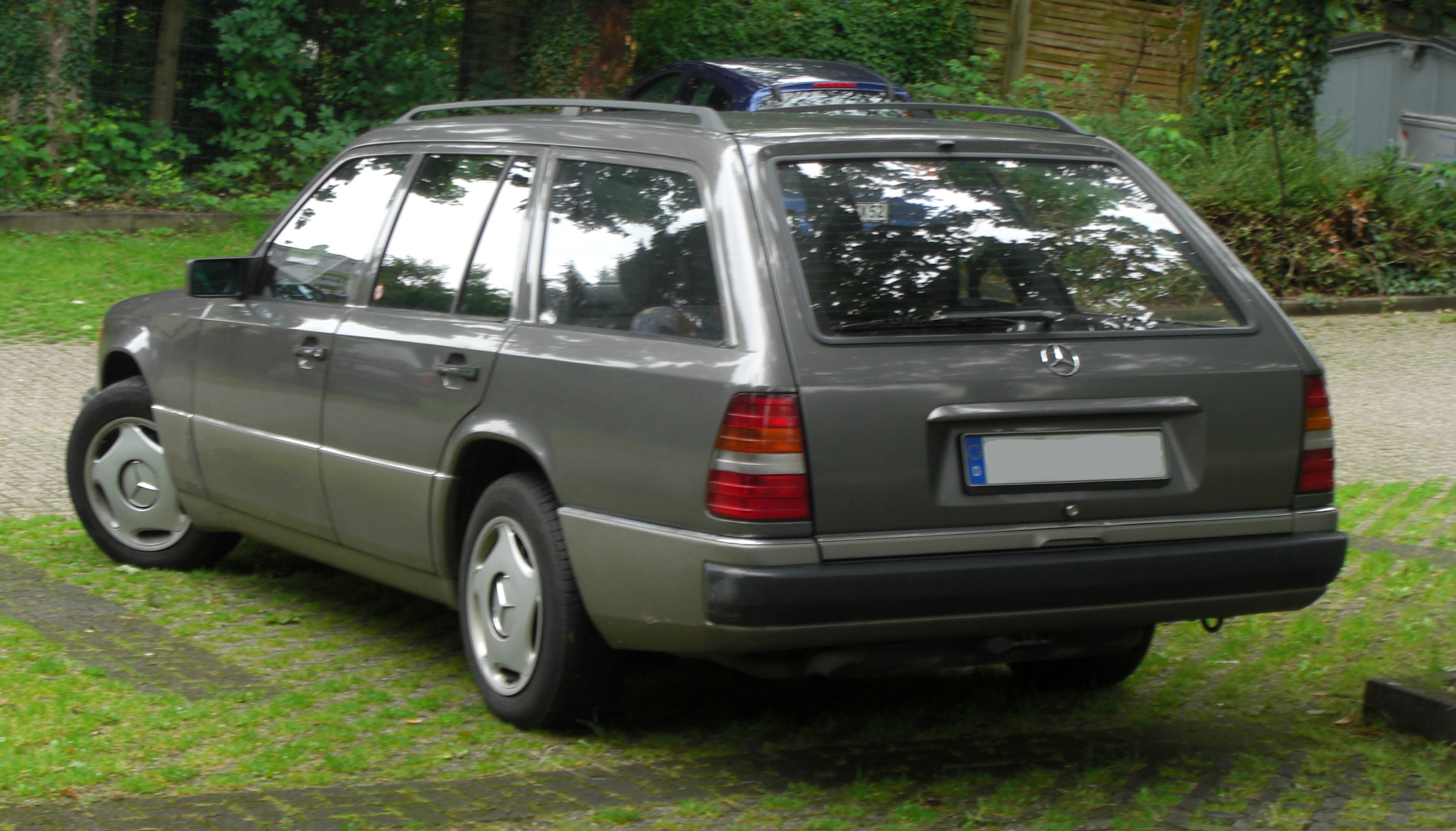 Mercedes W124T